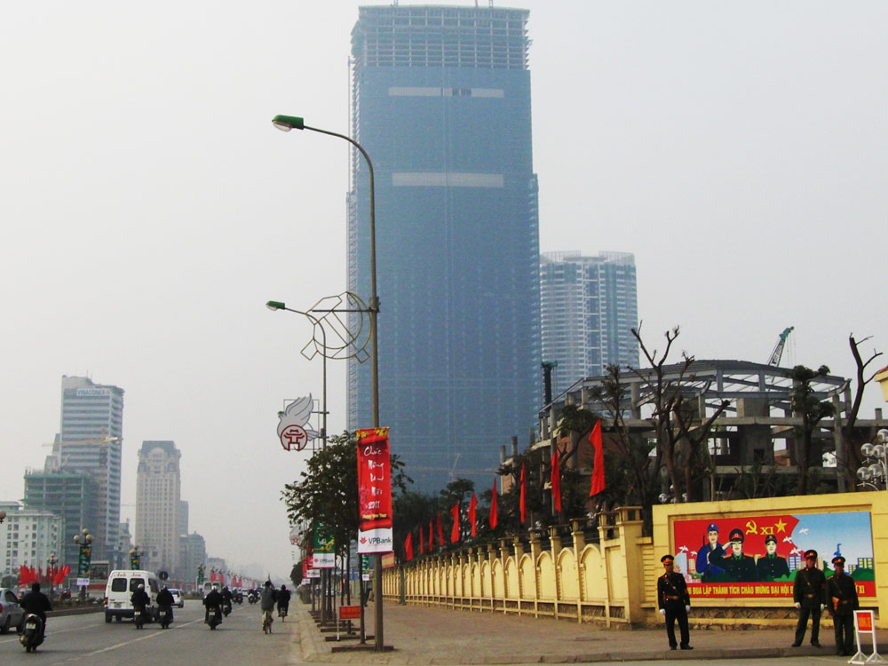 Keangnam-Hanoi-Landmark-Tower